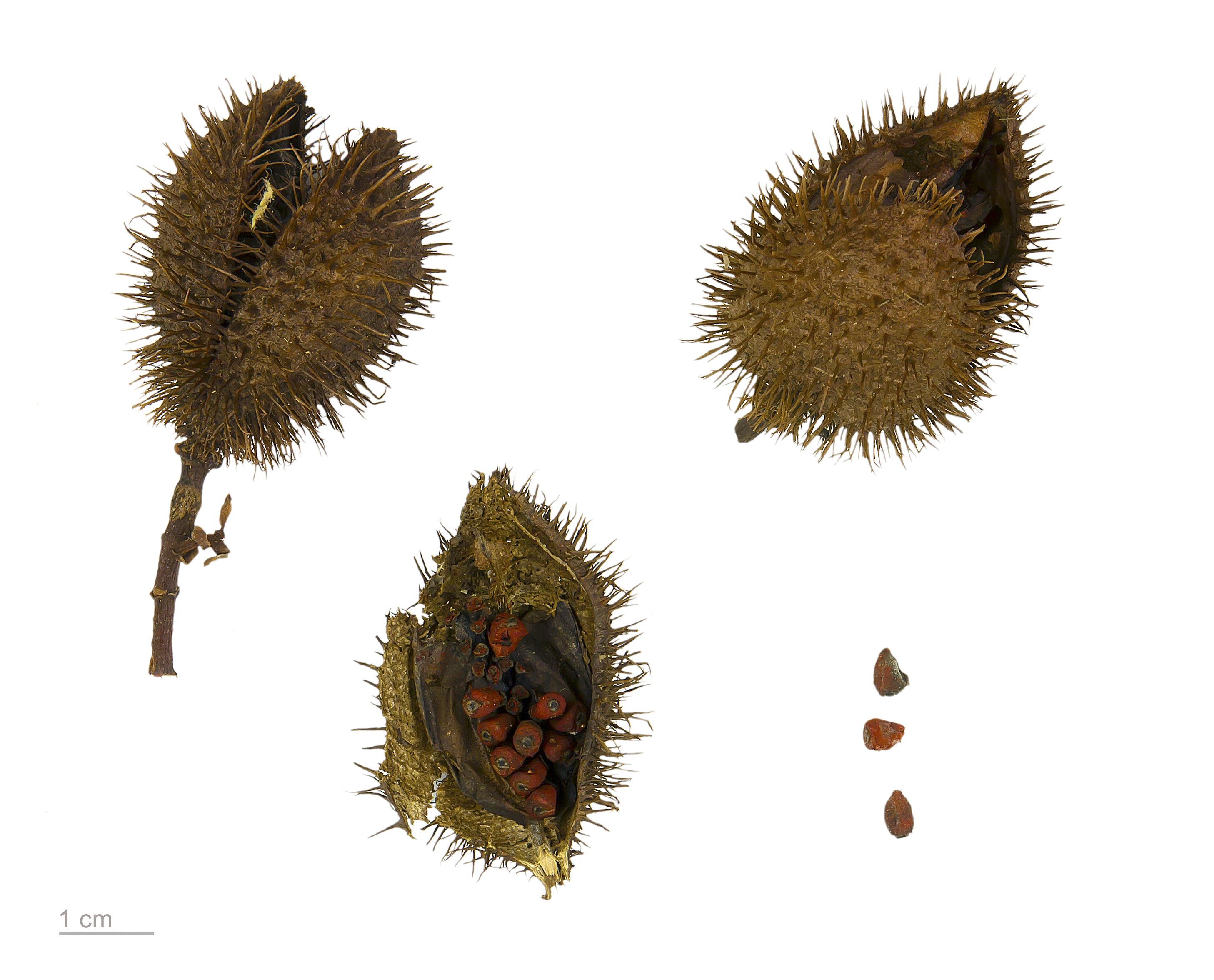 Bixa orellana, Achiote, seeds